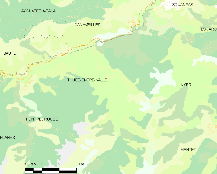 Map of French municipality